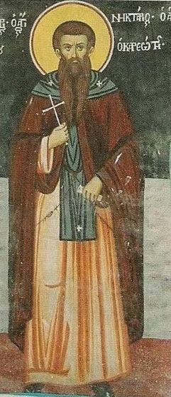 Saint Nectarius from Bitola fresco from Vatopedi Monastery